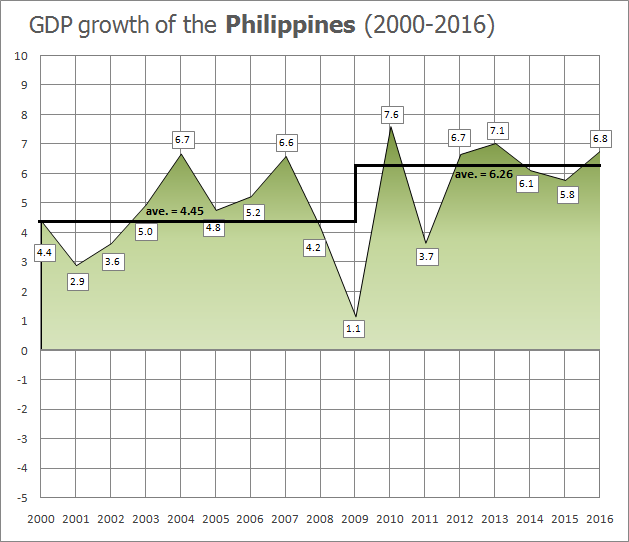 Philippine GDP growth from 2000-2016, showing the Philippine economic boom started 2010.